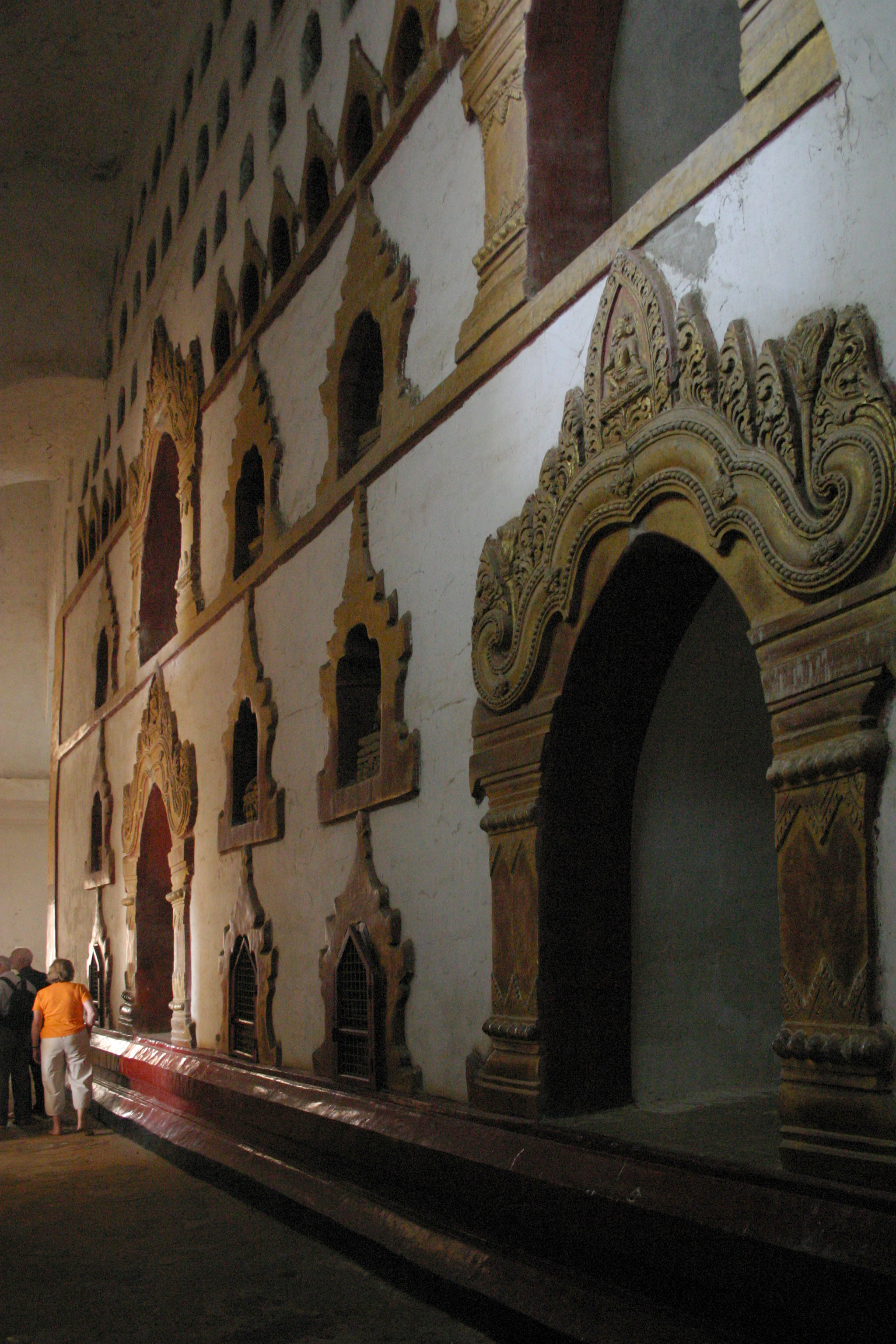 Ananda temple in Bagan, Myanmar.